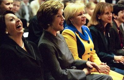 First ladies Bella Kocharian of Armenia, Laura Bush of the United States (former), Lyudmila Putina of Russia and Zorka Parvanova of Bulgaria (from left to right), during a program about writers of children's book at the Book Festival hosted by Mrs. Putina, 1 October 2003, Moscow.